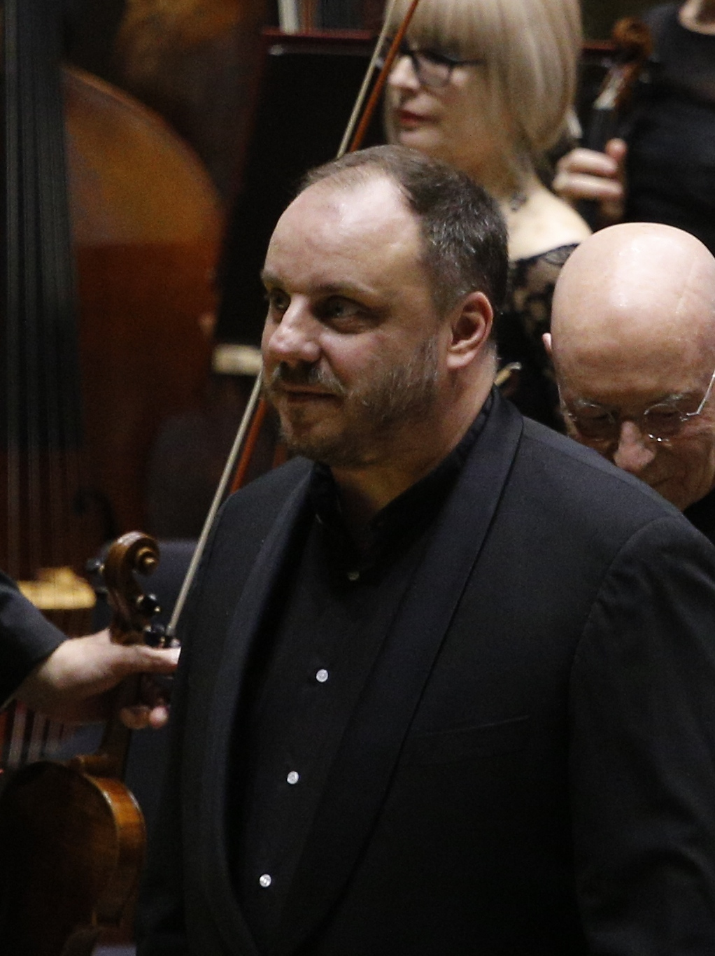 Matthias Goerne in Gewandhaus Leipzig.